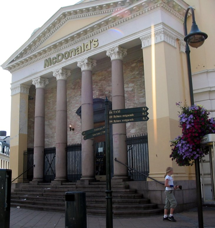 McDonald's restaurant in Markens gate 11, Kristiansand, Norway. The unusual architecture of this restaurant is because the building used to be a bank. Many visitors comment on this.